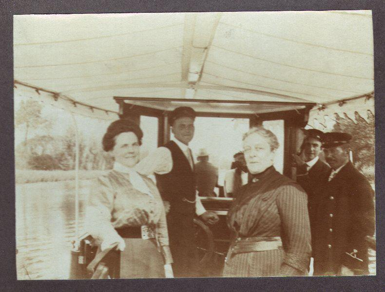 Passagiers op de avanti in 1909